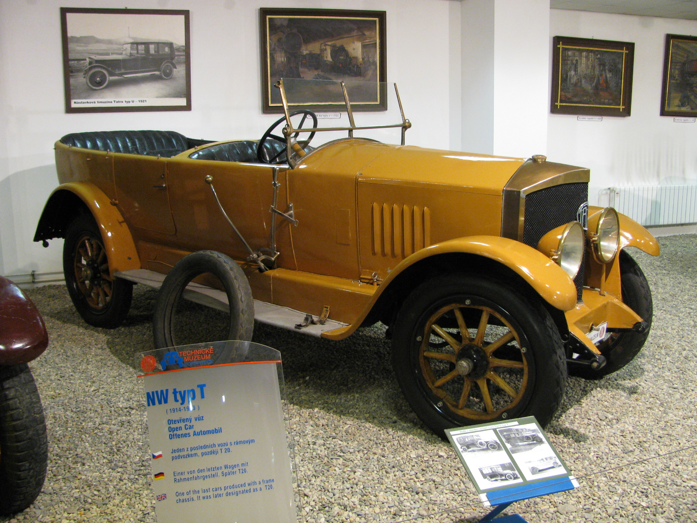 NW T in Tatra Technical Museum, Kopřivnice, Czech Republic.